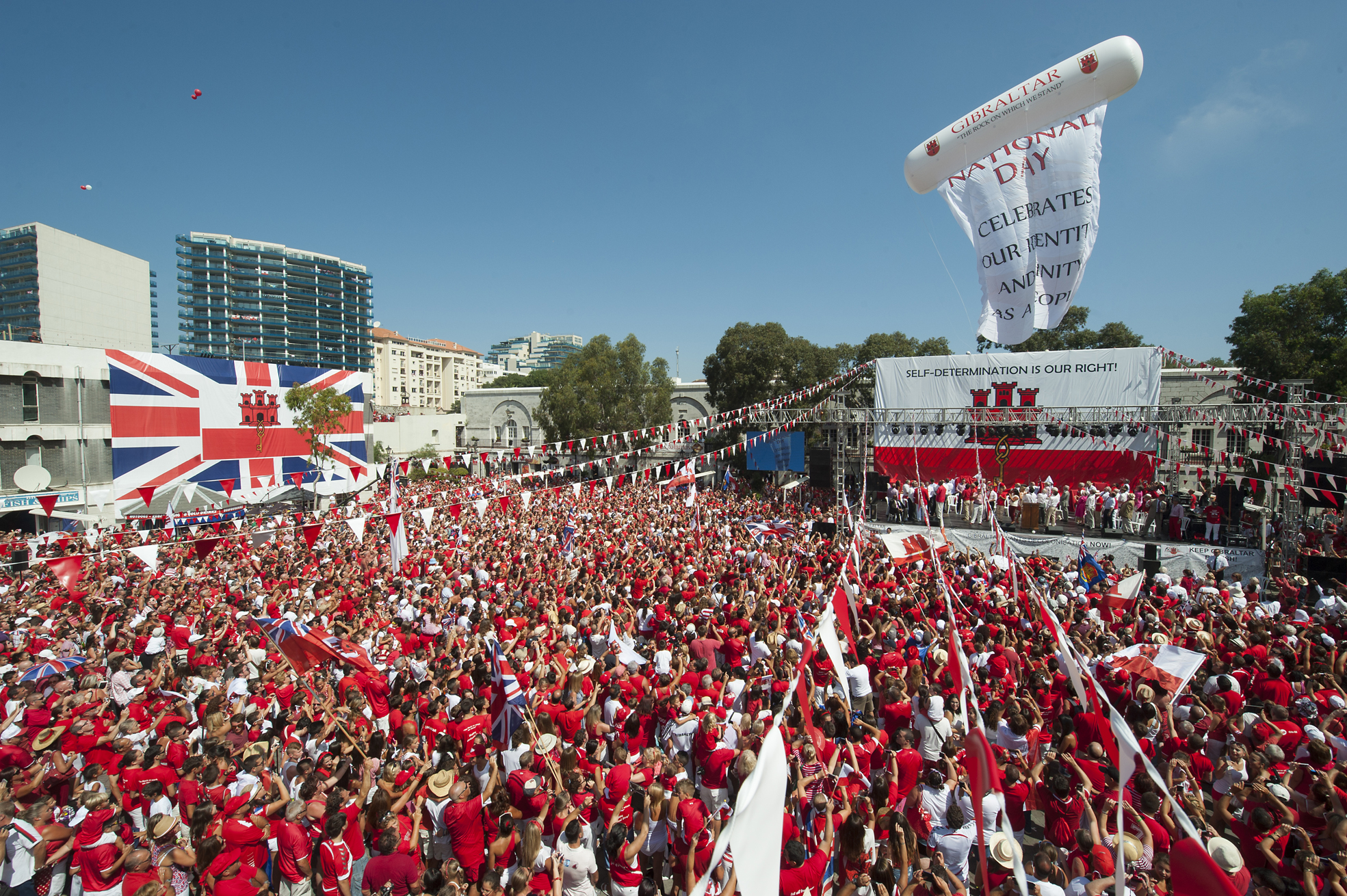 Gibraltar National Day_027